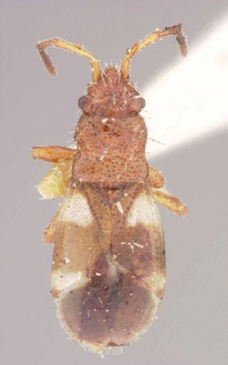 Dycoderus picturatus, female.